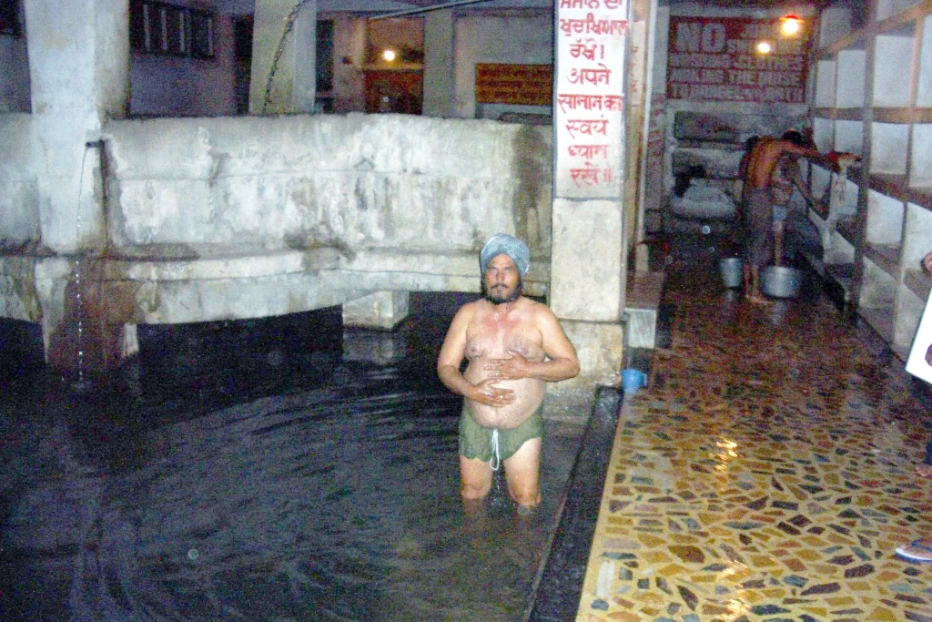 I took this photo in 2004 on a trip to Manikaran.